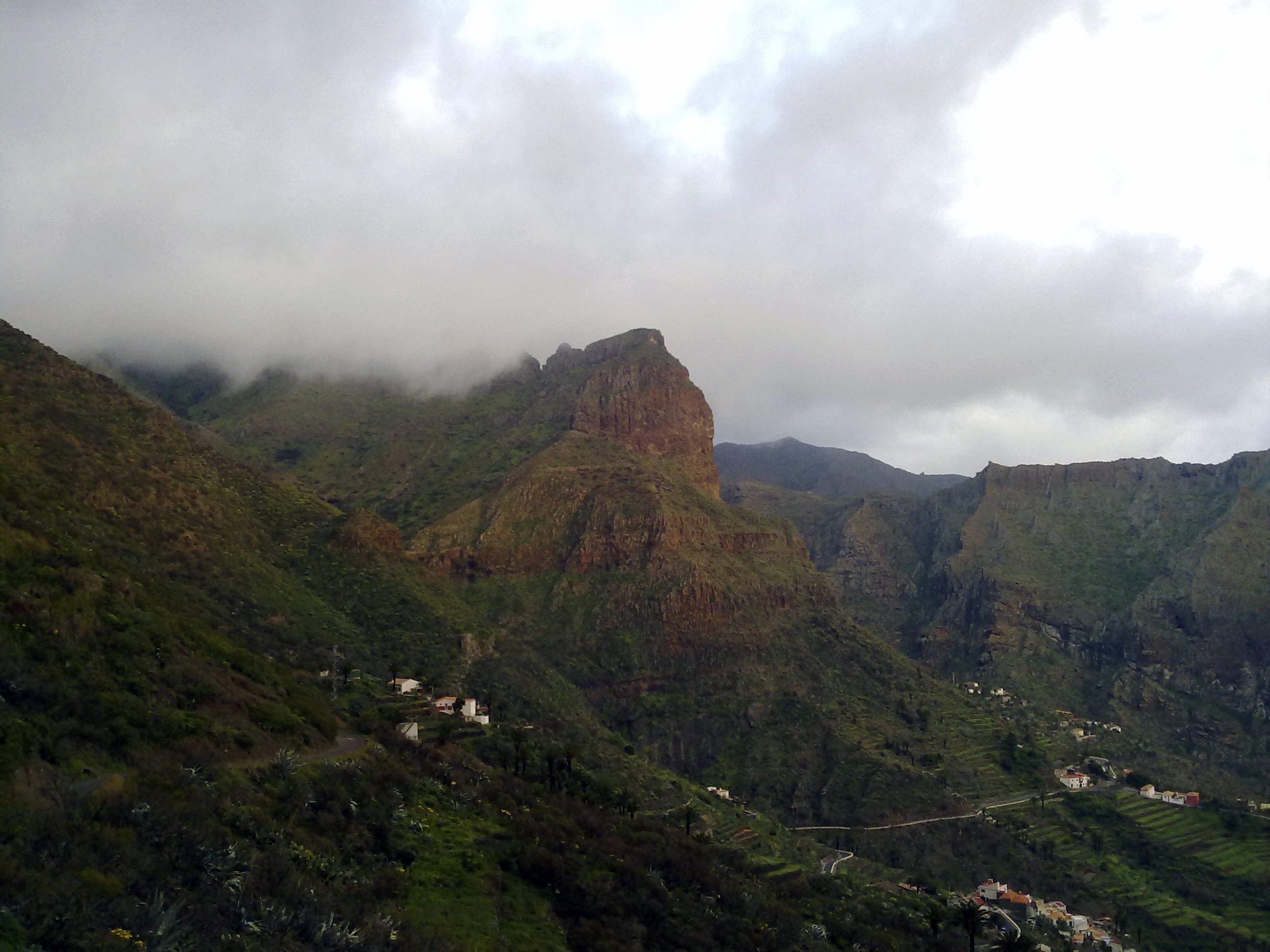 Village of Masca.